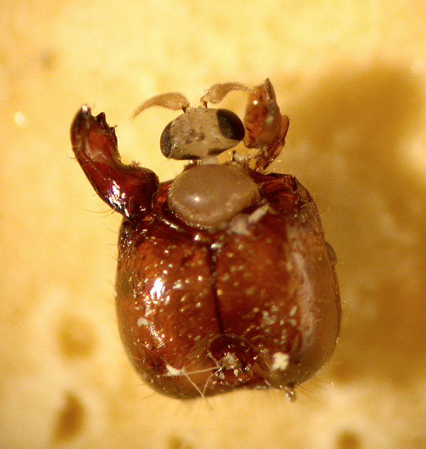 A newly hatched phorid fly emerges from the head of a red imported fire ant that has been parasitized and killed.